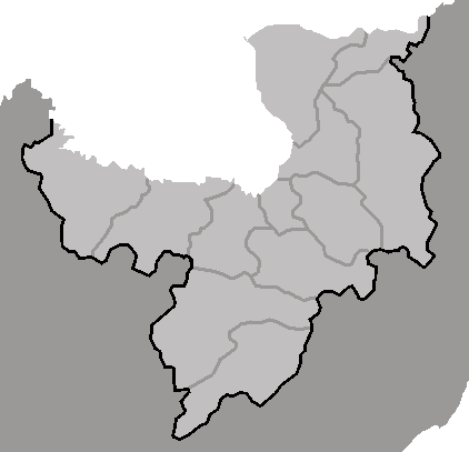 Map of counties of Ryanggan-do, DPRK, 2006